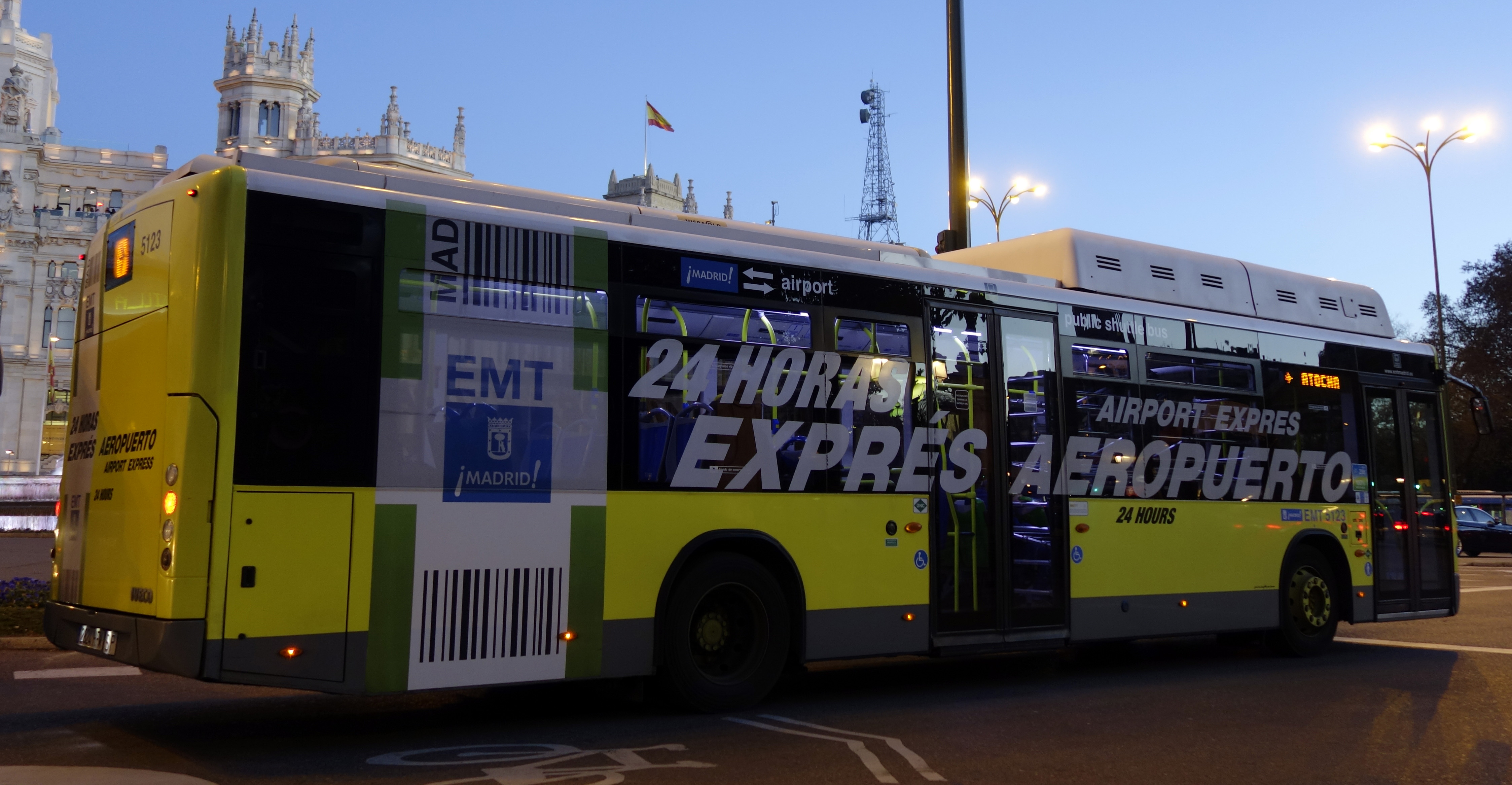 EMT Madrid Bus Airport line